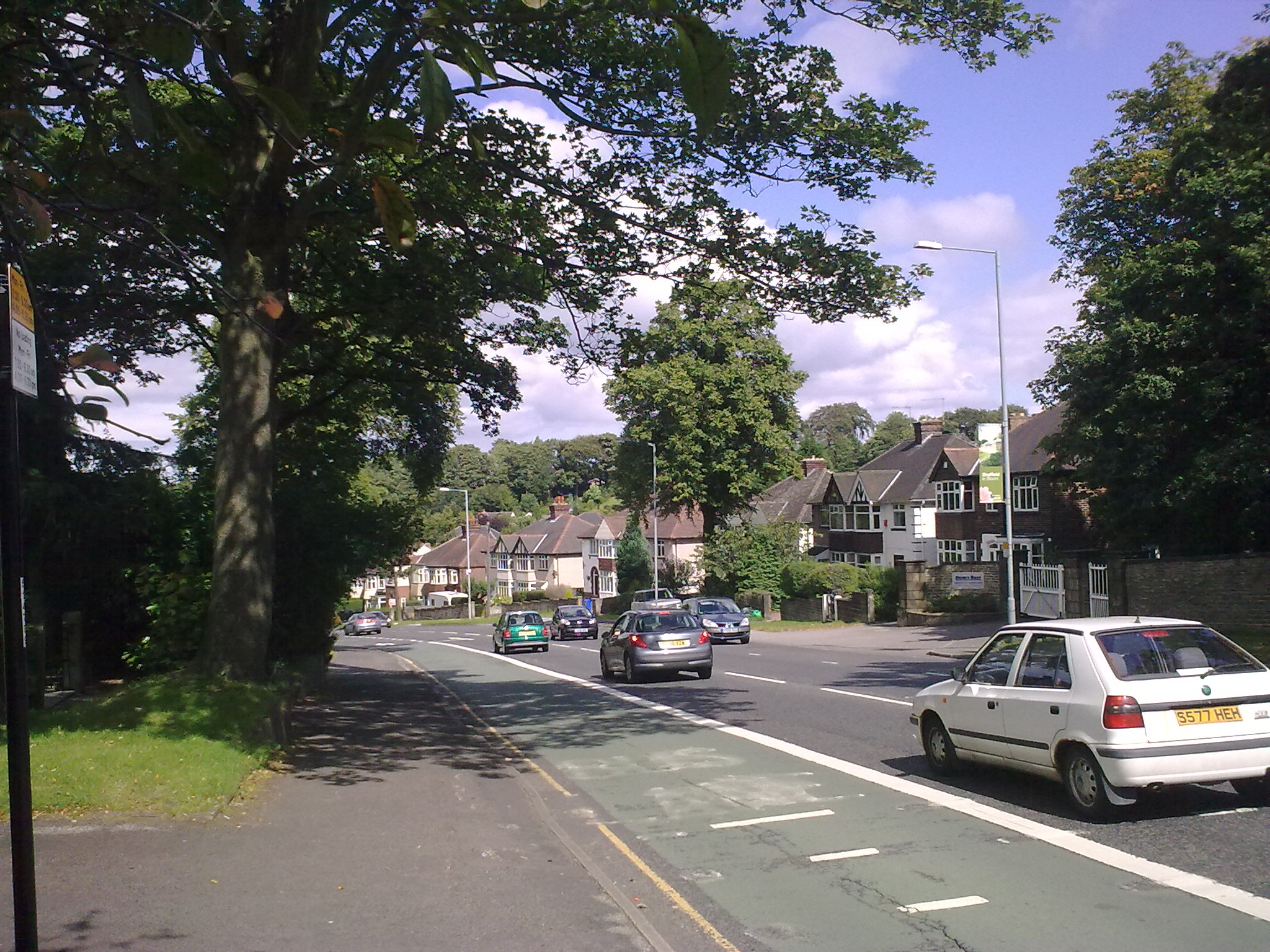 Ecclesall Road South, August 2009. This photo was taken just south of the Banner Cross shopping area.